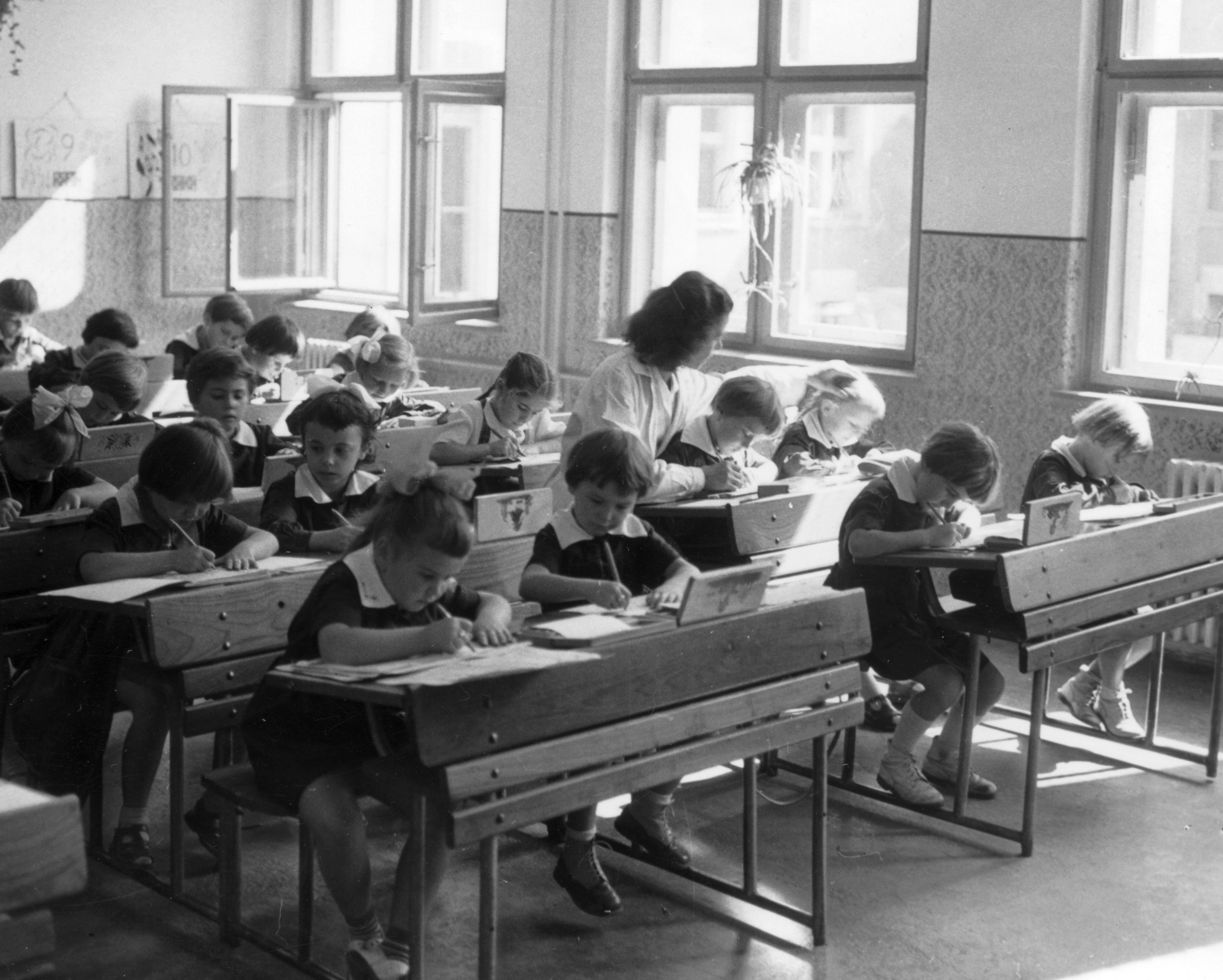 Tags: school, classroom, bench, teacher